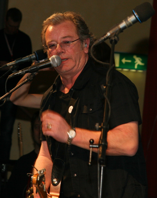 Åge Aleksandersen